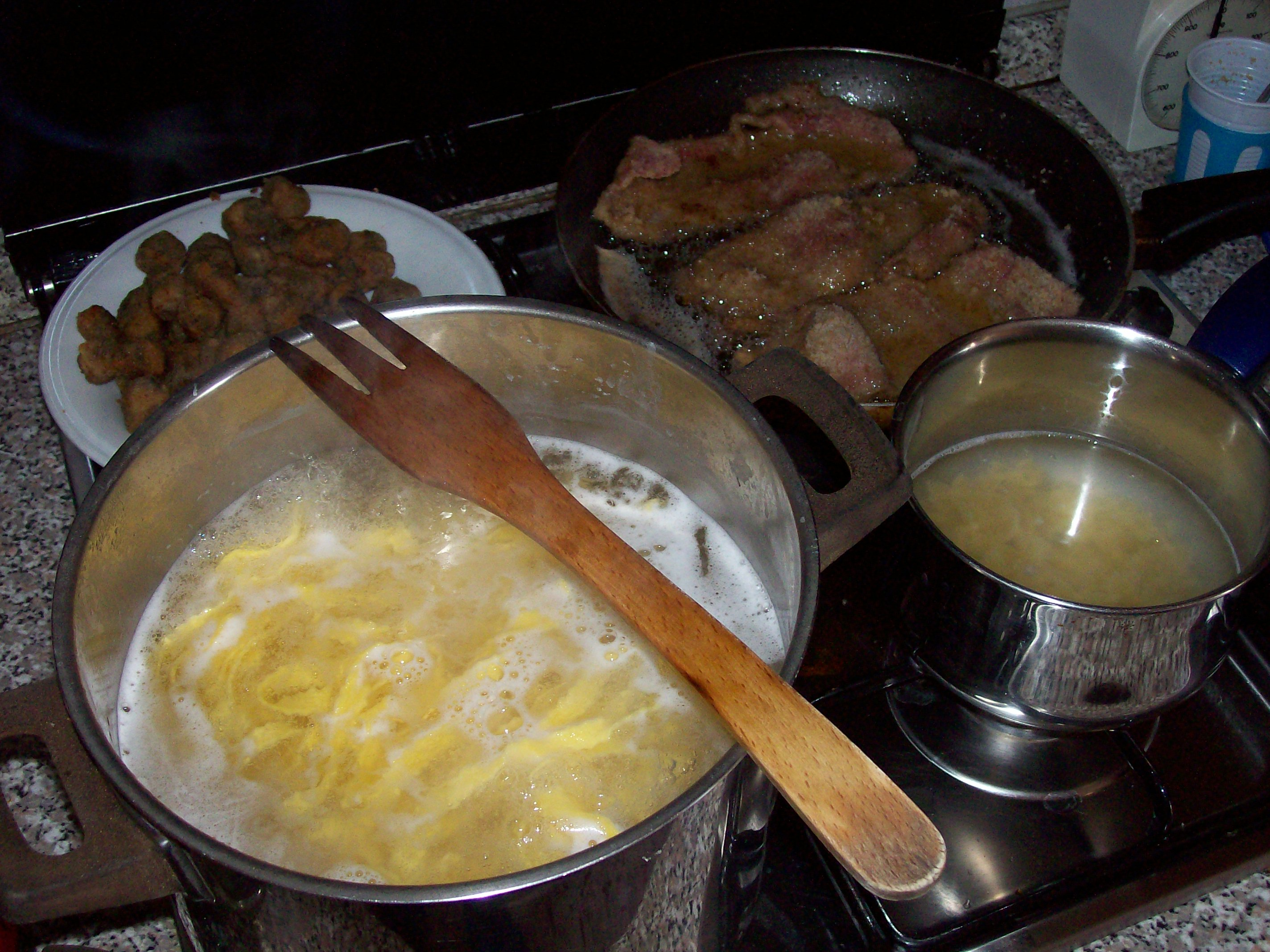 an image of cookery